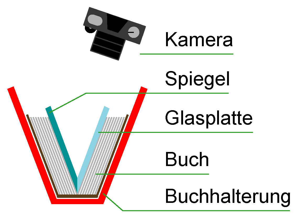 Schematic view of the "Wolfenbütteler Buchspiegel", a device for image-capturing of books